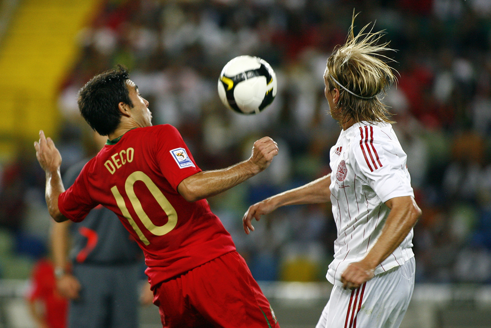 Deco (10) and Poulsen (2); Portugal 2-3 Denmark, Lisbon September 10 2008